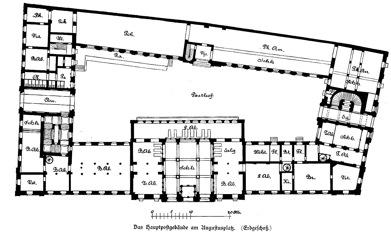 Architectural draft of the Hauptpostgebäude Leipzig, Germany